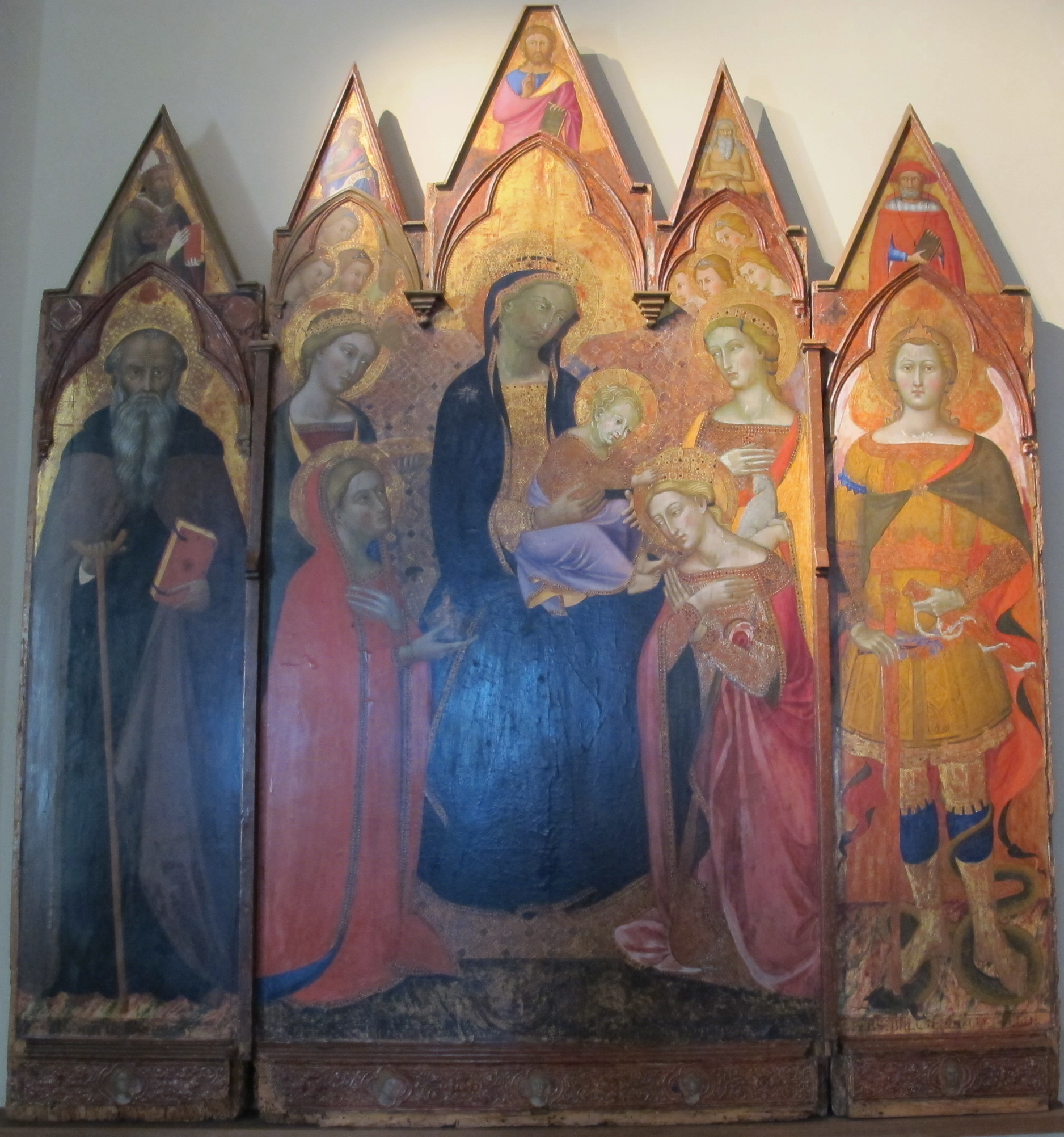 Painting in the National Pinacotheque, Siena